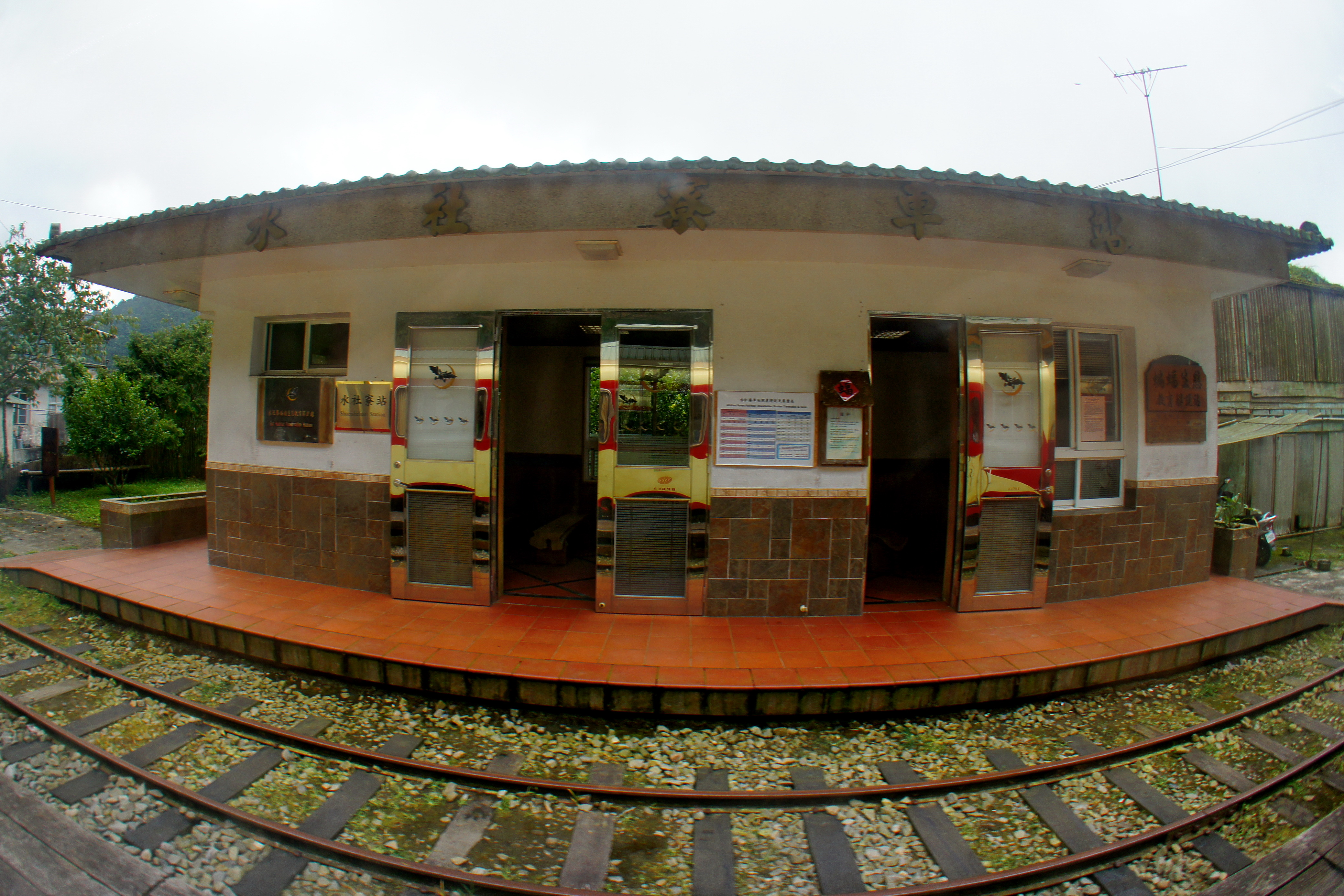 A fisheye shot of the Shuisheliao Station, Chiayi, Taiwan.